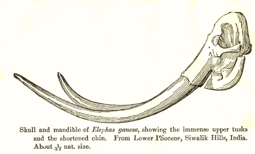 Stegodon ganesa (=Elephas ganesa) from the Siwaliks.